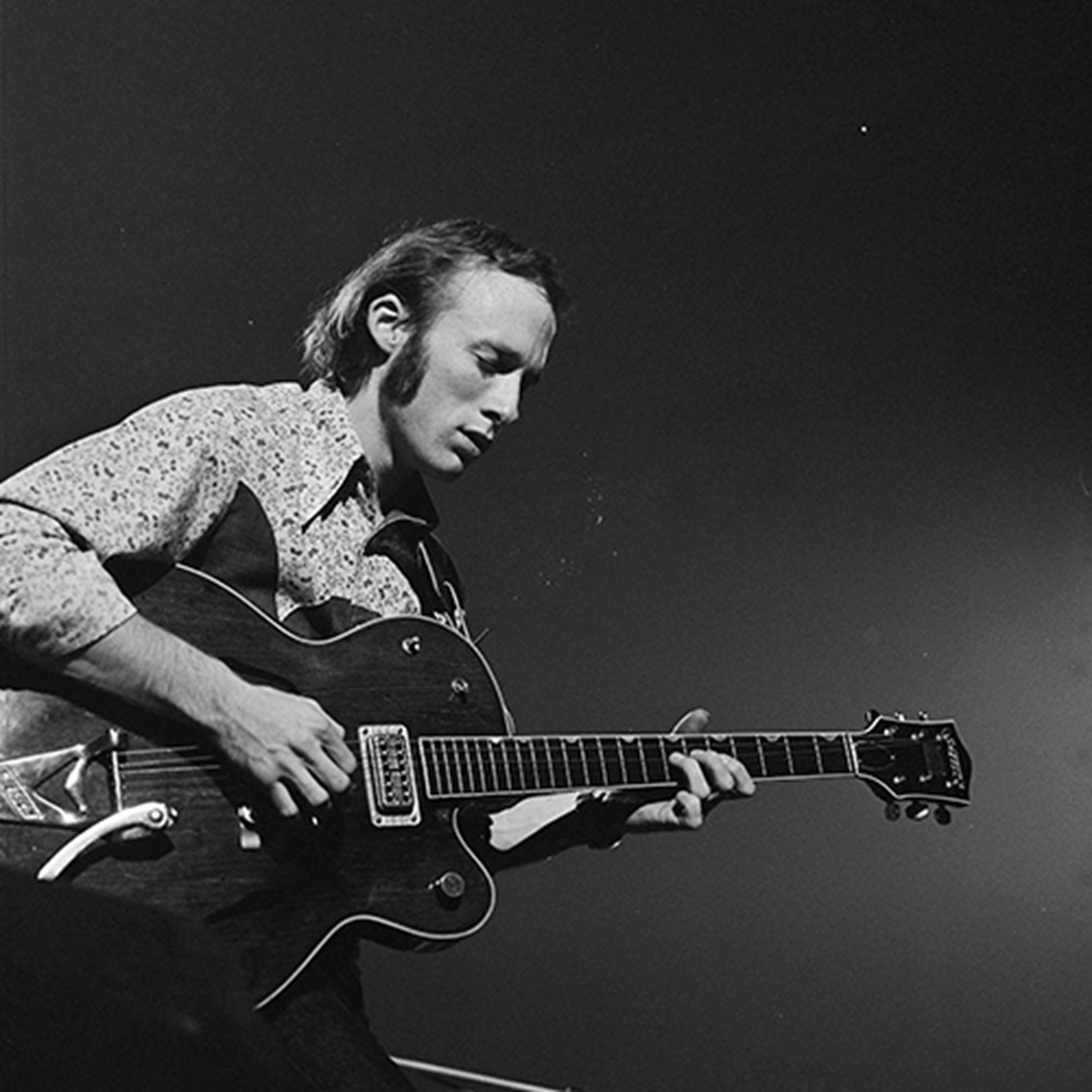 Stephen Stills (w. Manassas) performing in TV show TopPop (NL), Recorded 22 March 1972; broadcast 10 June 1972